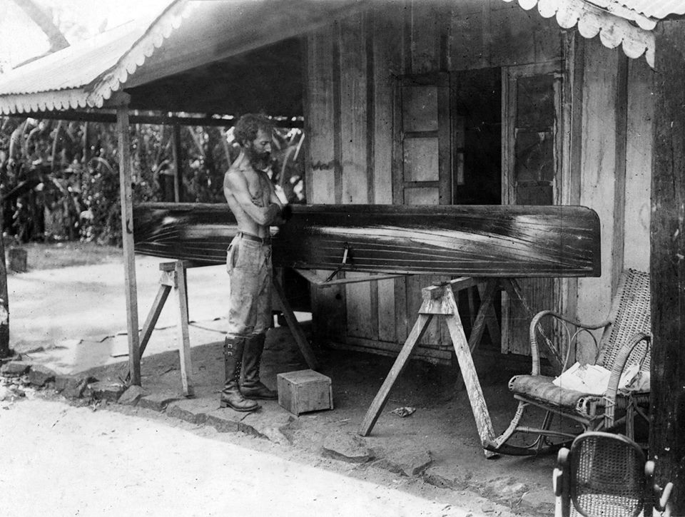 Uruguayan writer Horacio Quiroga repairing a canoe in San Ignacio, Misiones Province (Argentina) where he lived by then.